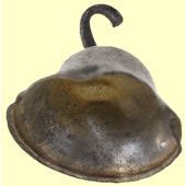 Treasure Number: 2011 T212 Colchester District, Essex Date of Discovery: 28/3/11 Circumstances of discovery: whilst metal detecting Period: 15th-16th century Description: Half of a post-medieval silver bell. Hemispherical in shape with a soldered loop at the apex, now broken. There is a single band indented around the rim and part of this has now sheared off. The body of the bell is dented and slightly misshapen. Dimensions: Height: 14.33mm Diameter: 14.80mm Weight: 0.8g Discussion:A similar example can be found from the Tendring area, Essex (PAS ref: ESS-481856, 2008 T576). Whereas similar bells were sewn onto clothing as fashionable accessories in the late medieval period, especially in the 15th Century, bells of this kind were, in the 16th Century, used for jesses on hawks and falcons; collars for dogs and cats; as well as being an element in horse furniture. Consequently, in terms of age and as the object contains a minimum of 10% precious metal it qualifies as Treasure under the stipulations of the Treasure Act 1996. Report by: Janina Parol, Assistant Treasure Registrar, British Museum